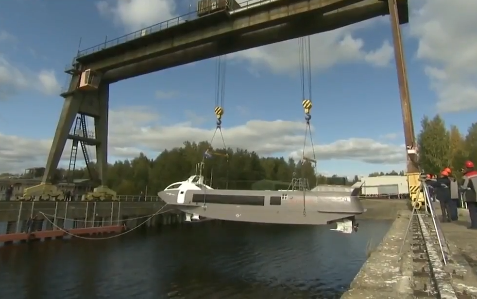 Valday 45R Hydrofoil